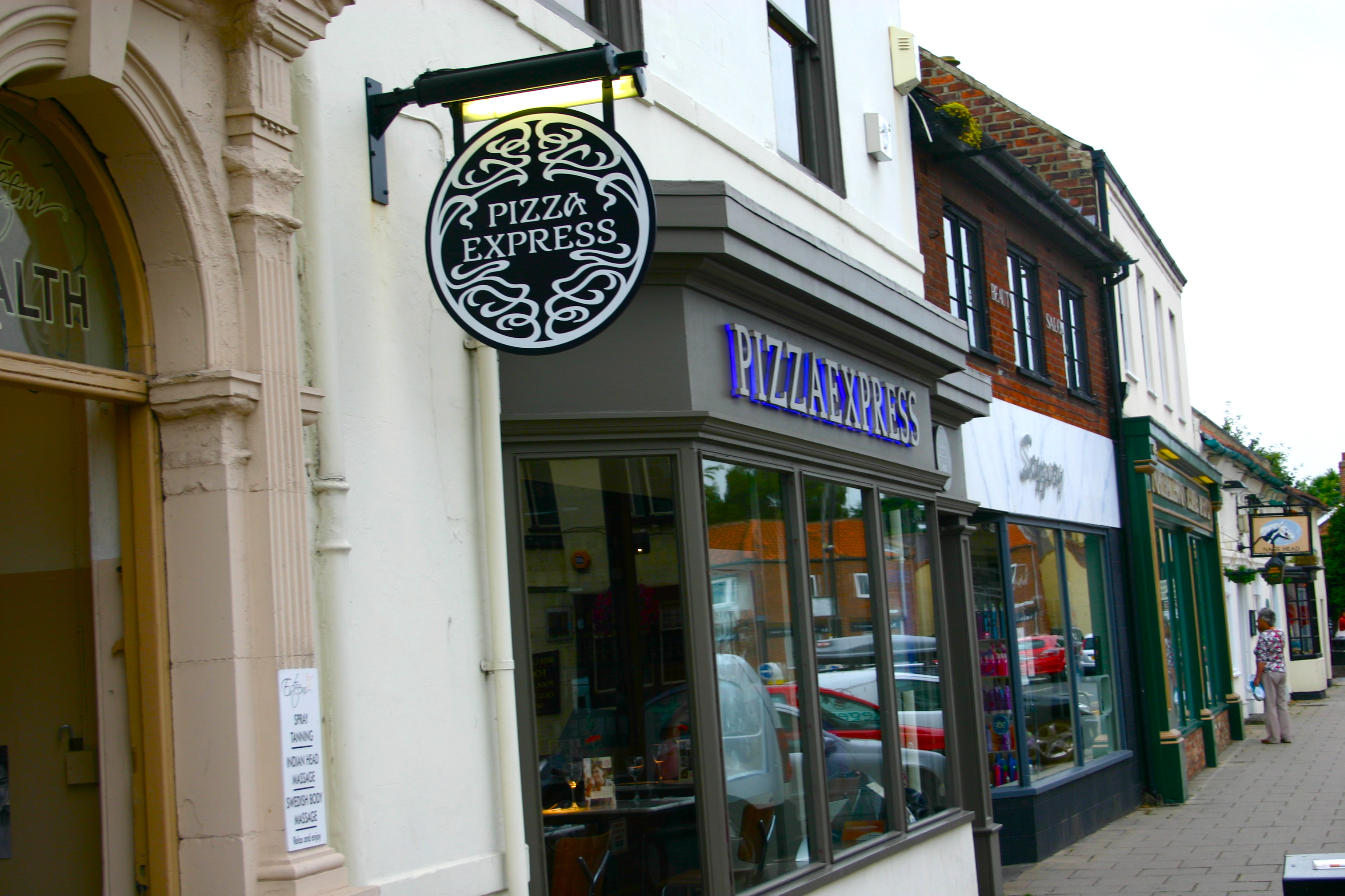 A Pizza Express restaurant in Northallerton.